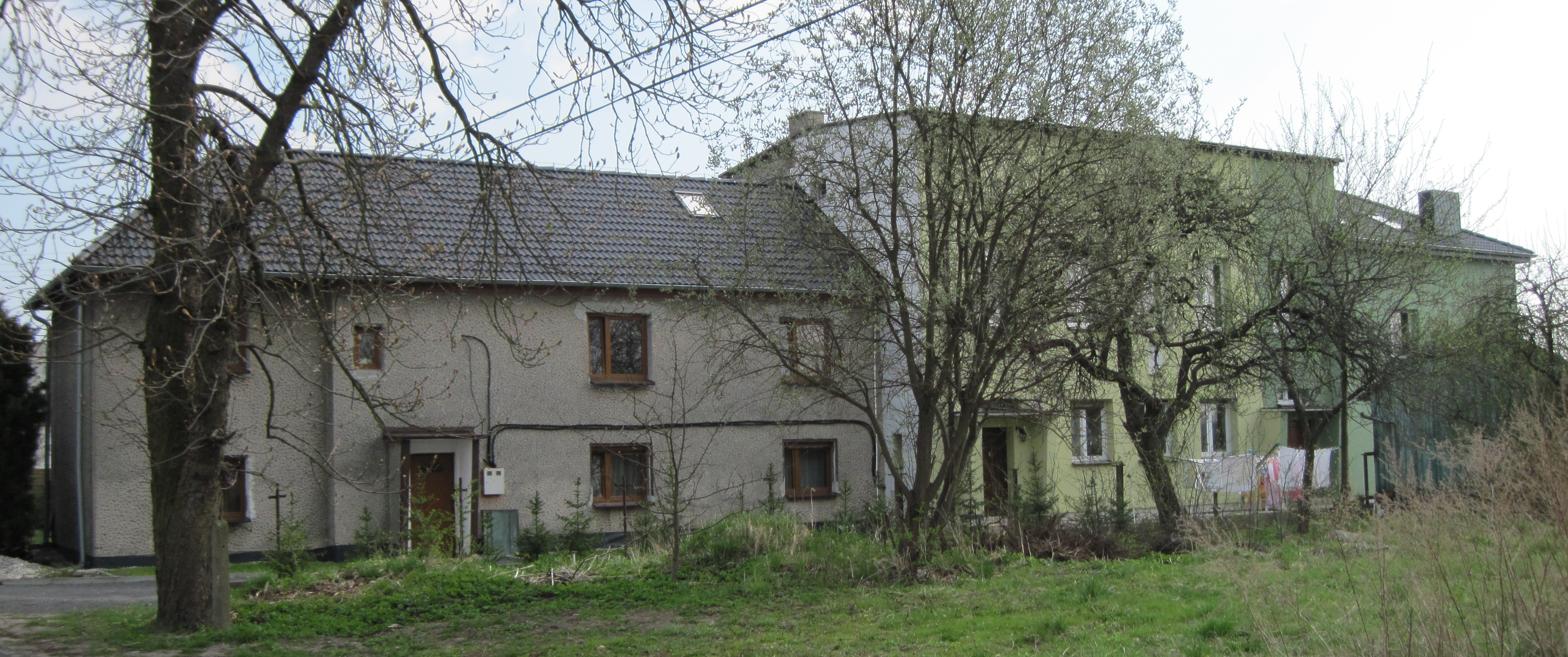 Former monastery building in Brynica